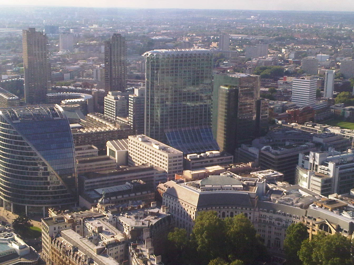 City Point building